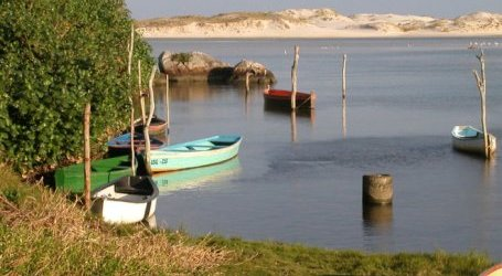 Boats and the Da Madre River in Guarda do Embaú, Palhoça, Santa Catarina, Brazil.